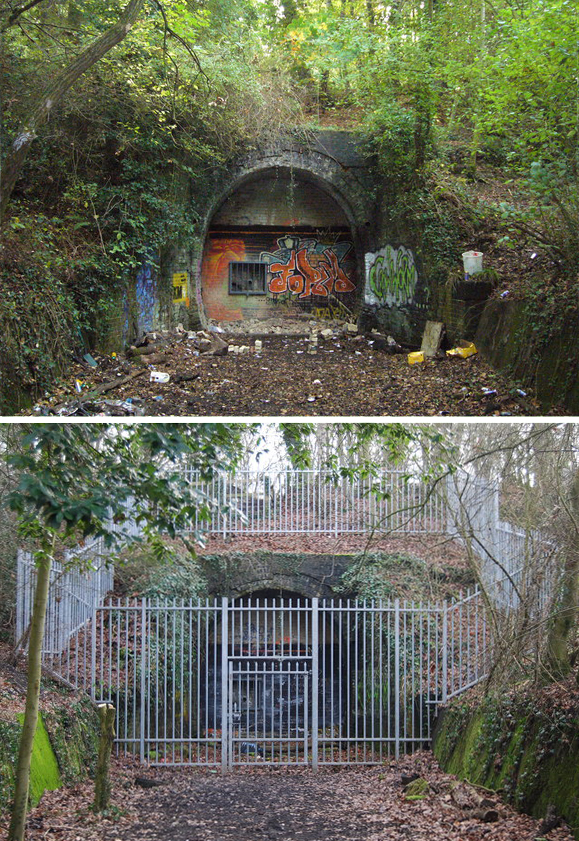 Tyler Hill Tunnel near Canterbury in comparison 2006 to 2009.